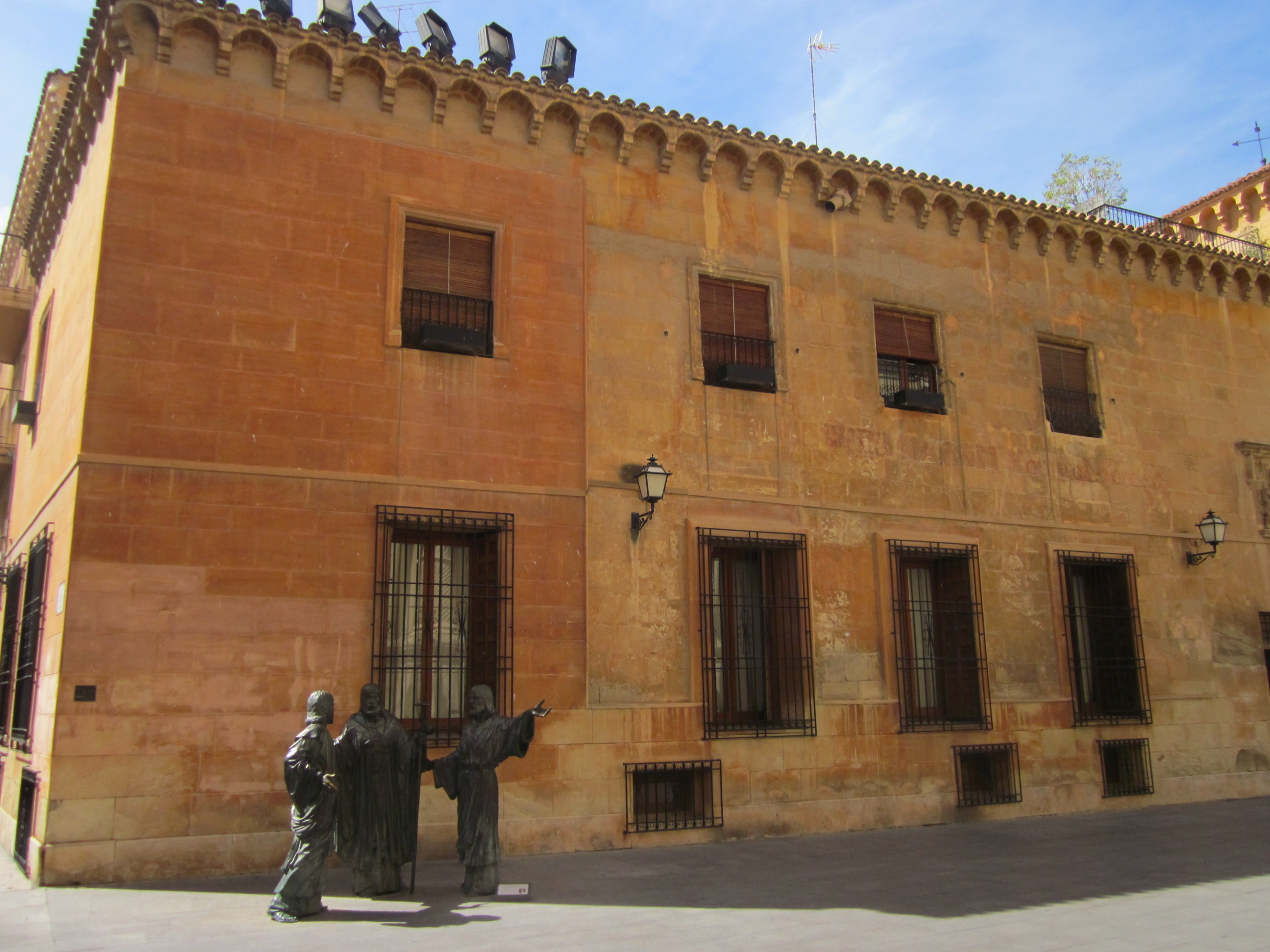 El Ternari. Misteri d'Elx